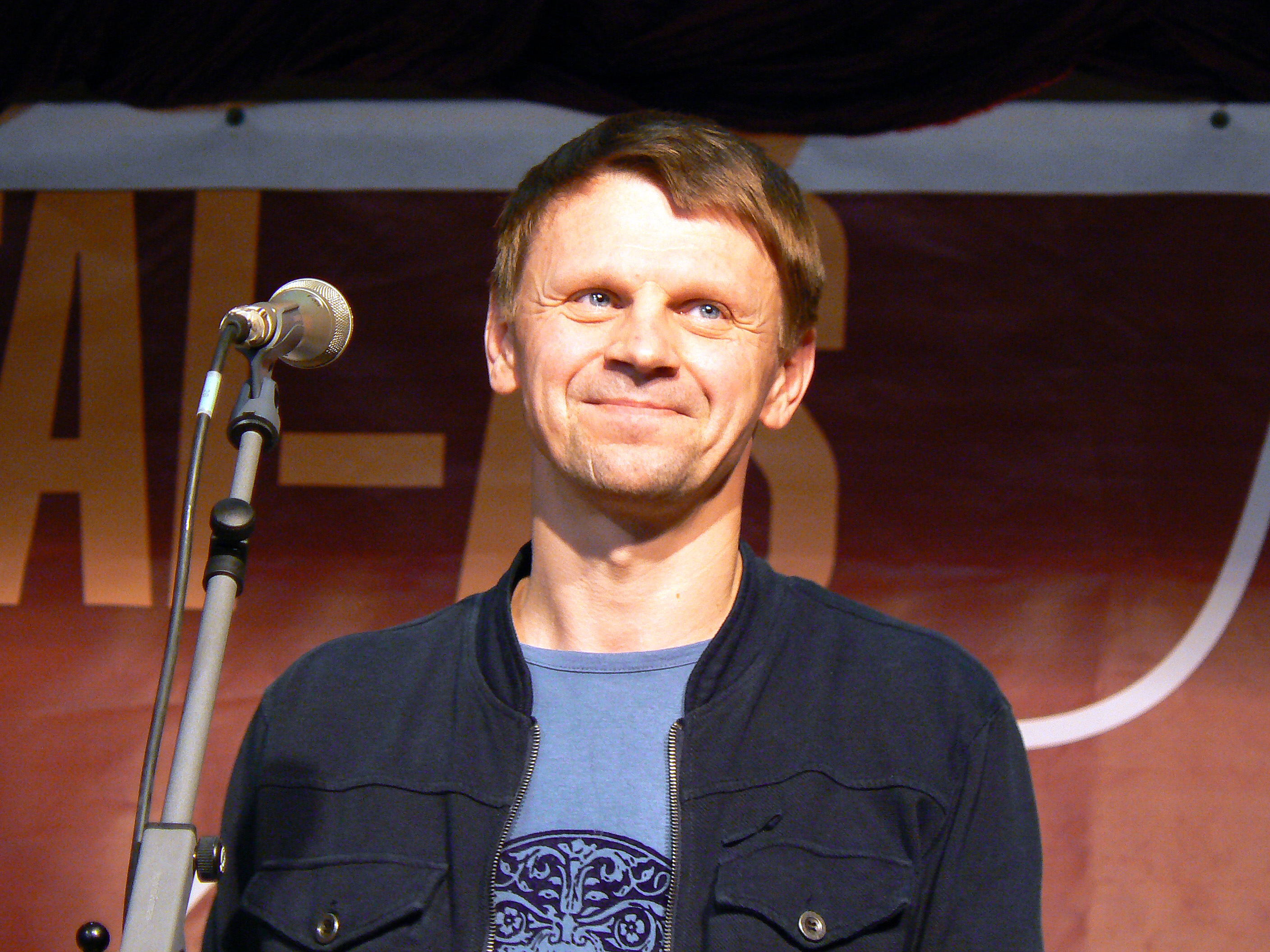 Rolandas Kazlas at sung poetry festival "Tai - aš", 2011.